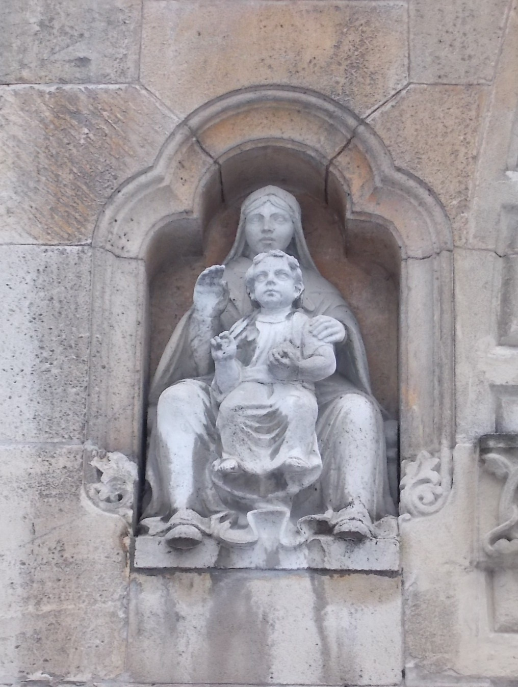 Saint Ladislaus (Ják) Chapel facade detail Madonna and Child (replica, Antal Martinelli, Jenő Martinelli, 1908, the origial is in Abbey church of St George (Ják)) Located in the Vajdahunyad Castle Complex on Széchenyi Island, City Park neighborhood, Zugló district, Budapest.